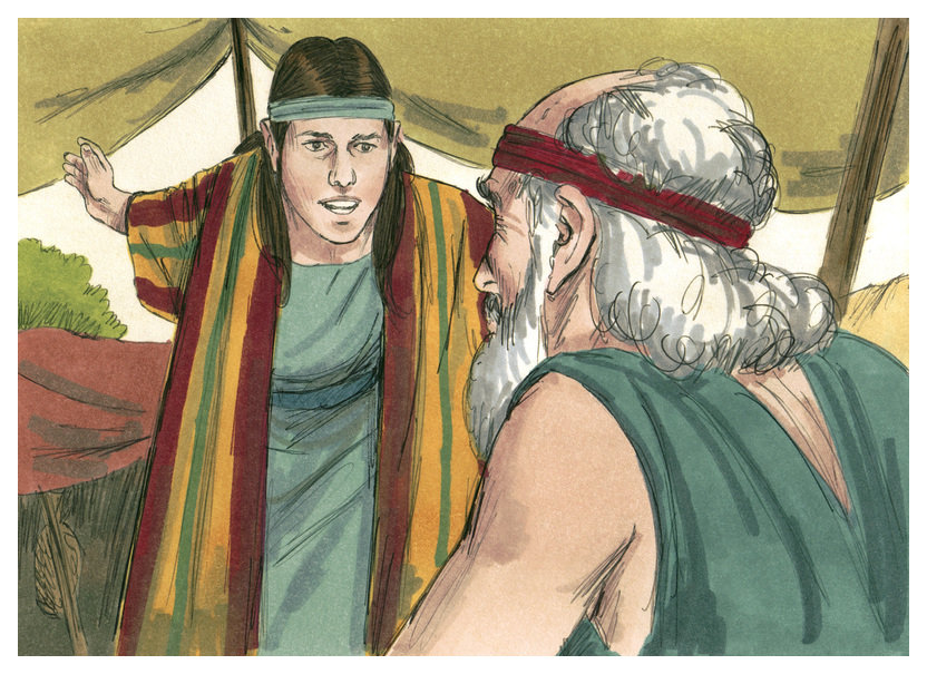 Biblical illustration of Book of Genesis Chapter 37